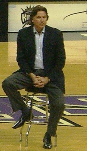 From left, Bobby Jackson, Geoff Petrie and the Maloof Brothers